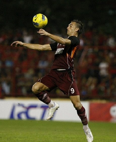 Ilija playing for PSM Makassar